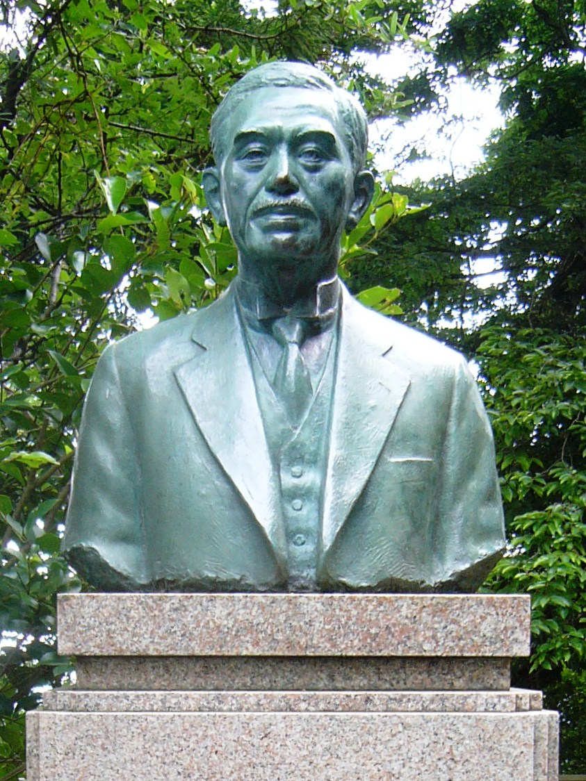 A bust of Bansui Doi, a Japanese poet, shot in Sendai, Japan.